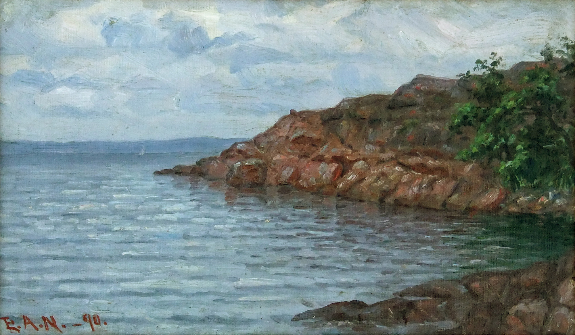 The Lumparn Sea, oil painting by the Finnish artist Elin Afhild Nordlund depicting a scene on the Åland Islands